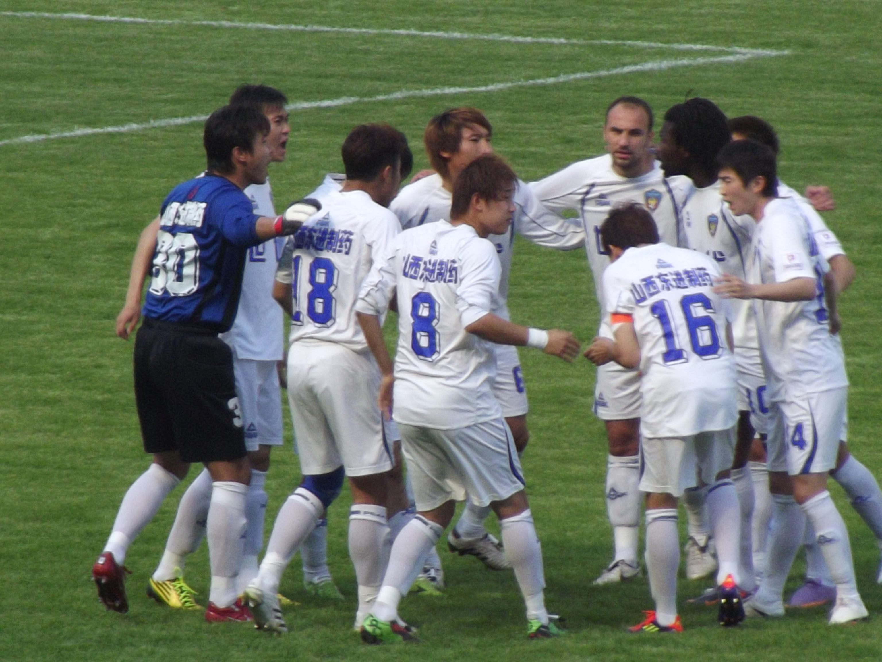 Shenyang Dongjin F.C.'s players during the match with Tianjin Songhong